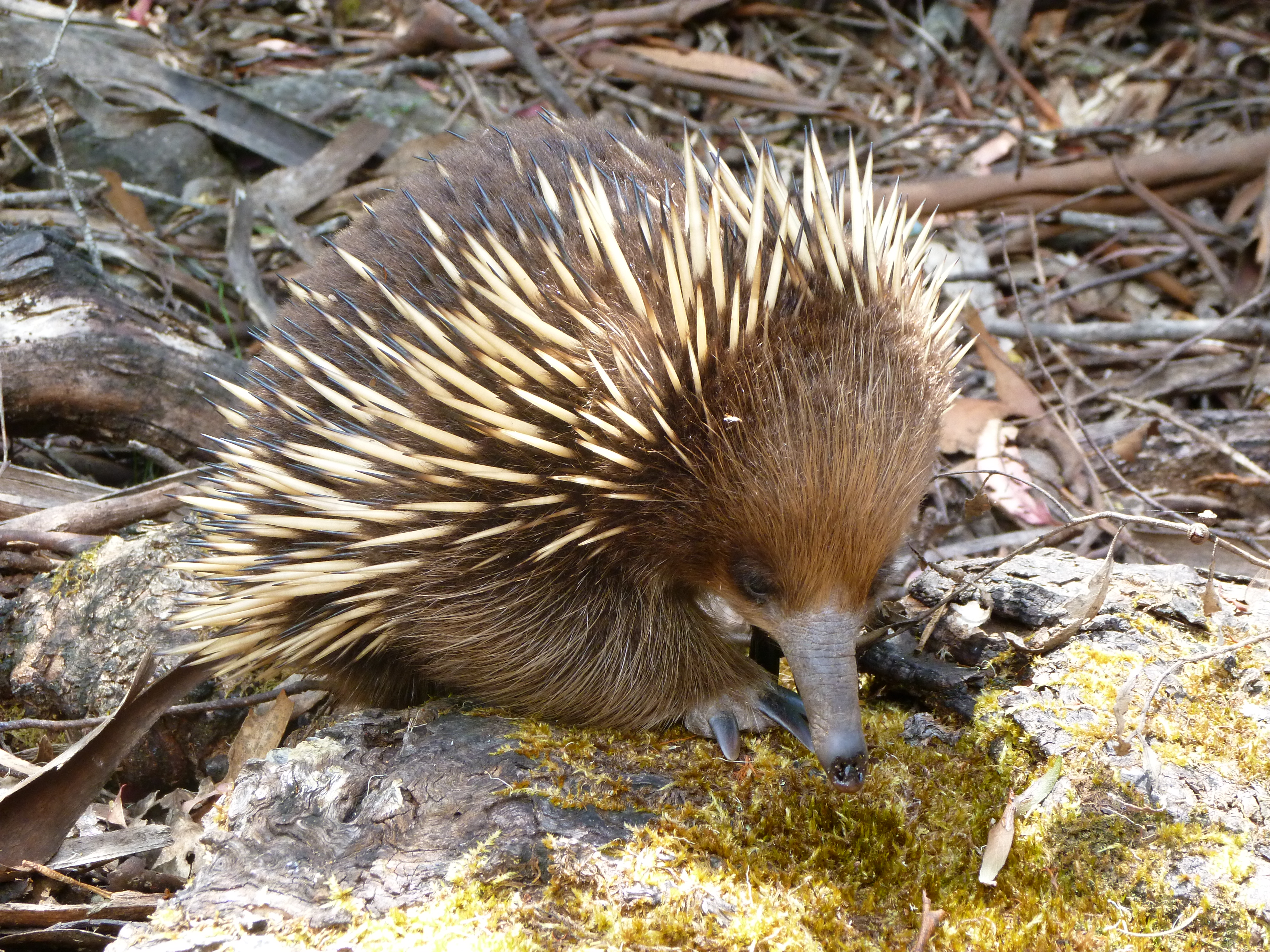 A short-beaked echidna (Tachyglossus aculeatus) on Maria Island, Tasmania